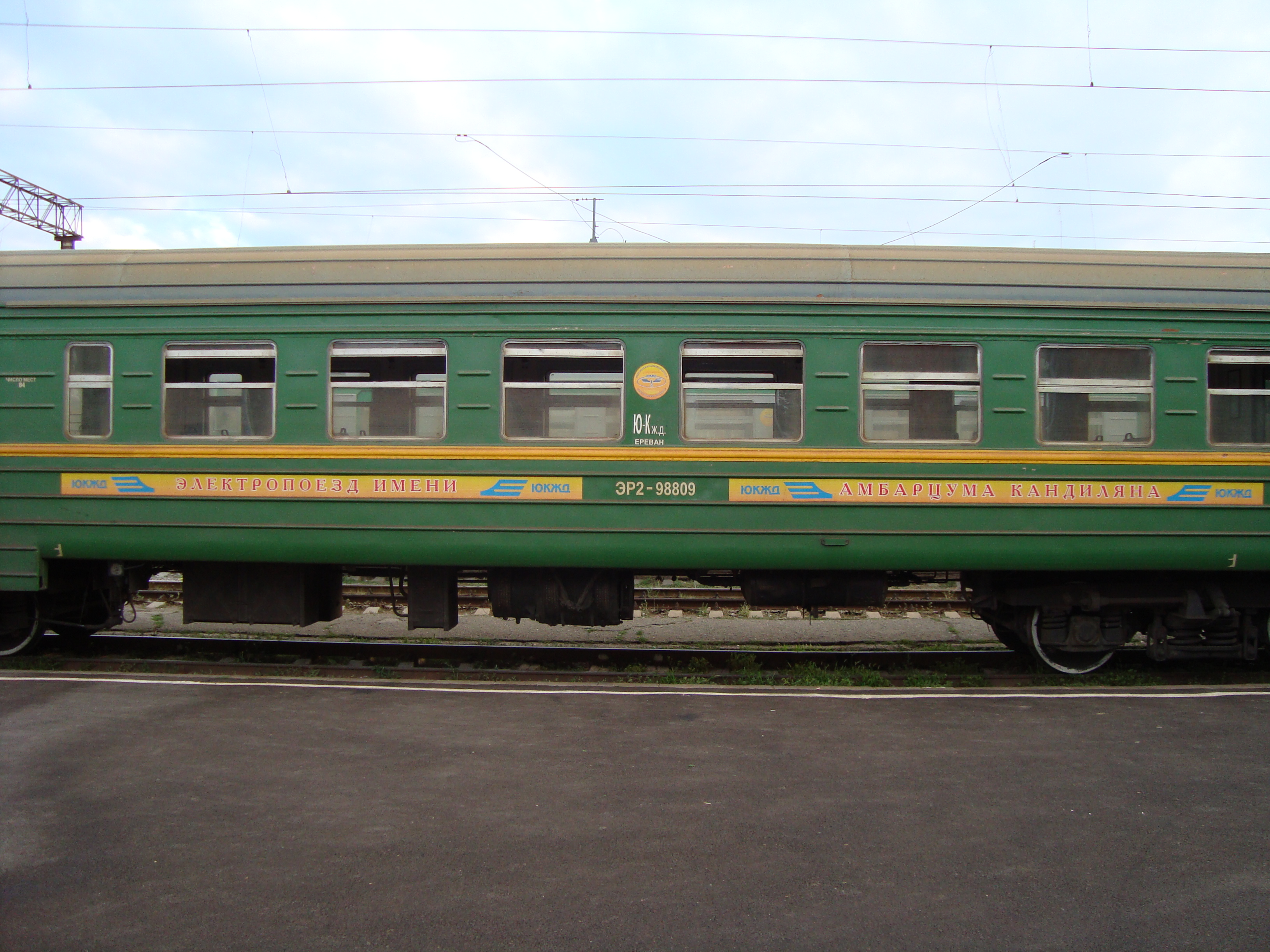 Suburb train named in honour of Ambarcum Kandilyan. Train situated in the station Armavir (Armenia) and preparing for departure to Yerevan station.